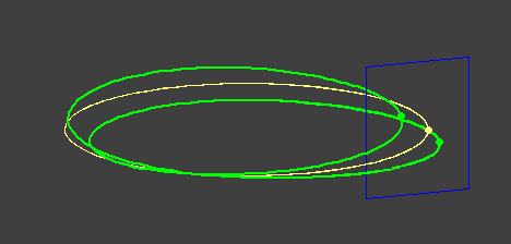 Illustration of a period doubling in three dimensions. Yellow: the unstable limit circle. Green: the solution that returns to its starting point after two revolutions. The Poincaré image is used